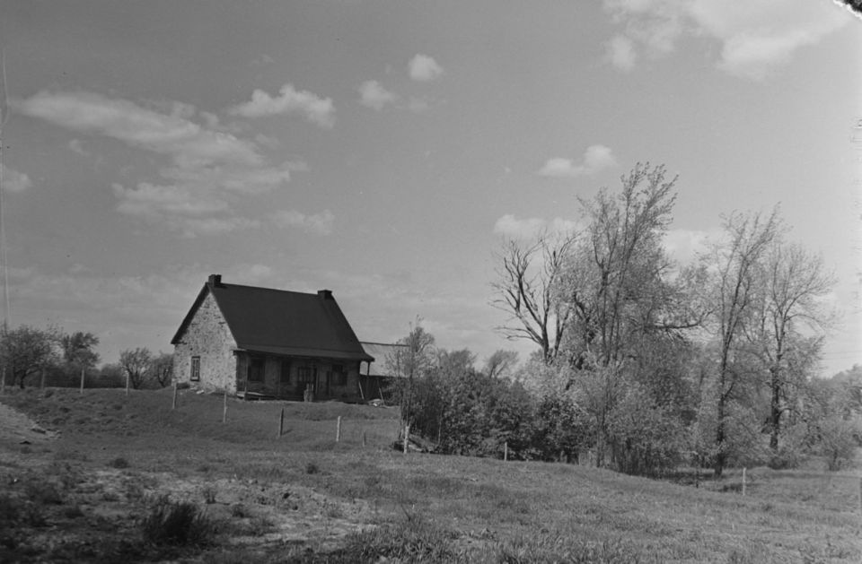 We see a stone house in the sloping roof located in Côte Saint-Luc.